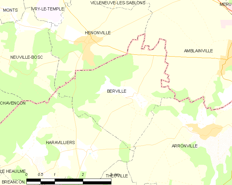 Map of French municipality Berville